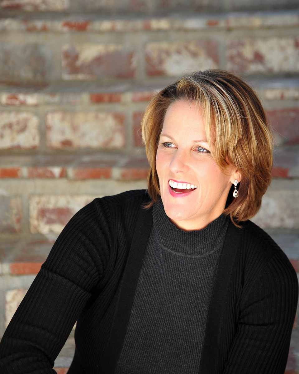 Catherine Bybee, 2016